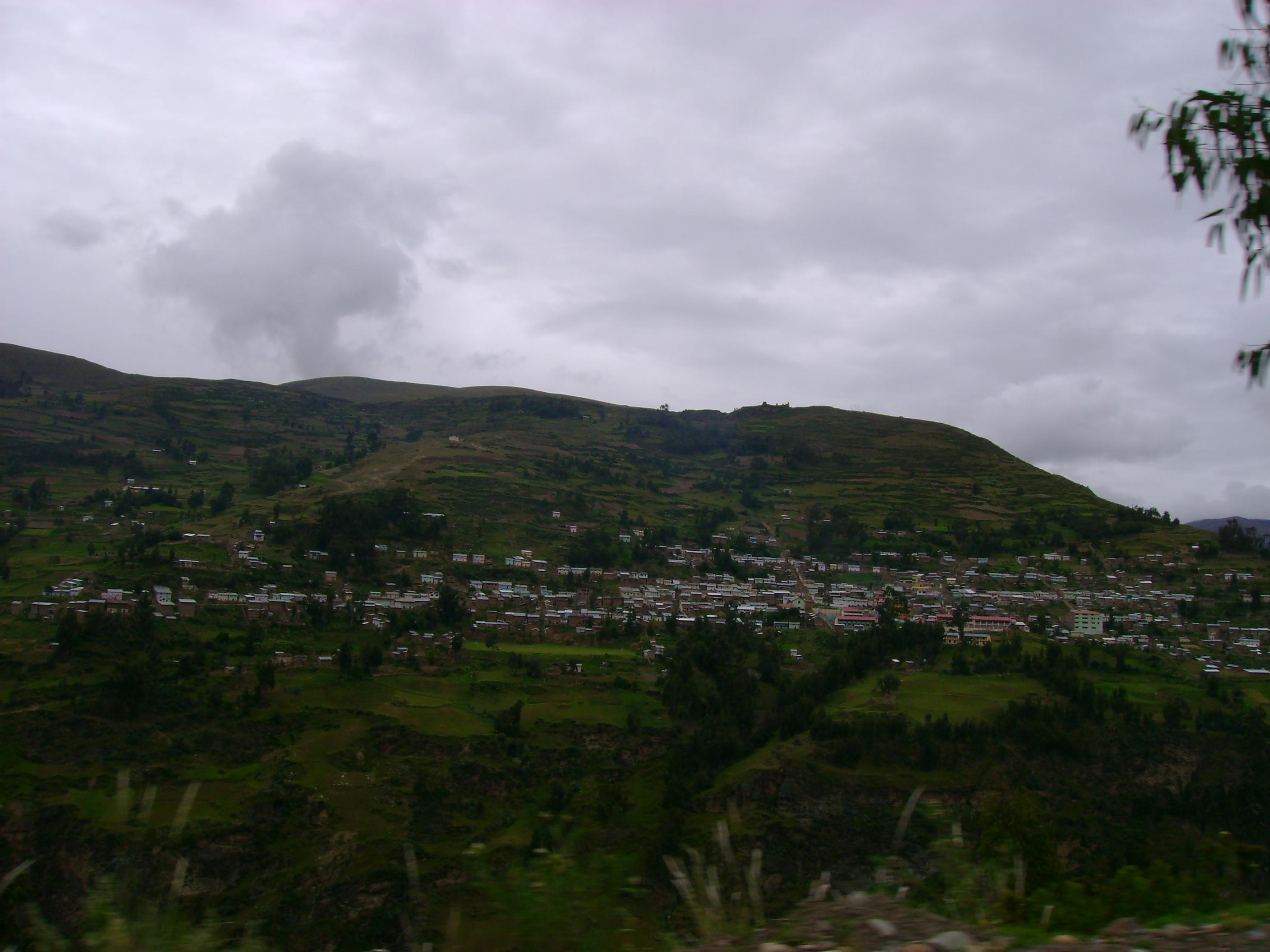 Chavinillo City